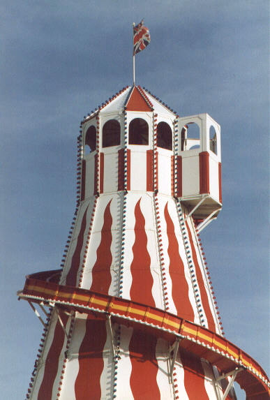 The helter skelter from Spanish City, Whitley Bay, UK